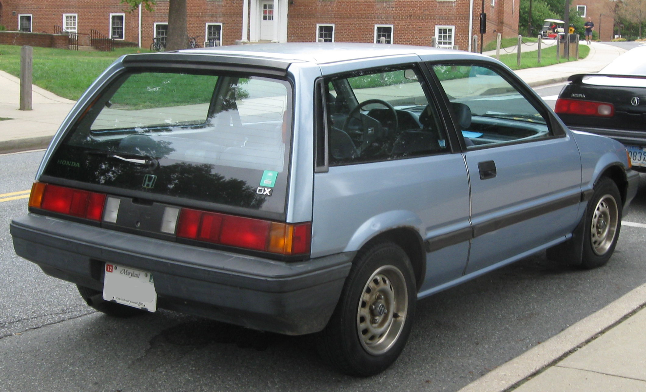 1984-1985 Honda Civic photographed in College Park, Maryland, USA.